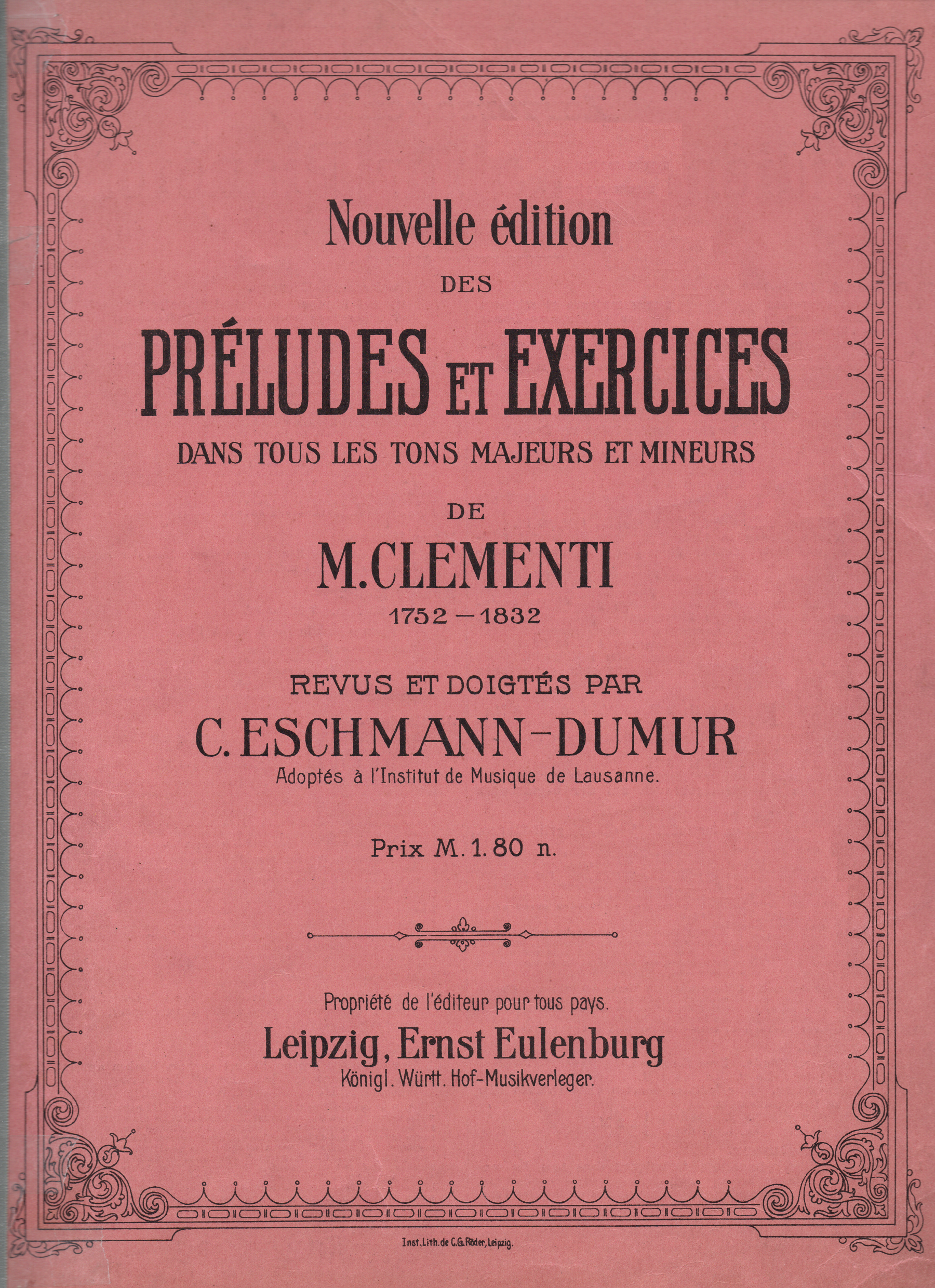 Front cover